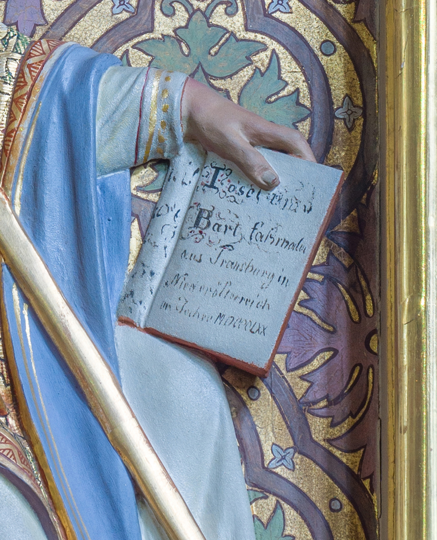 Relief of pope Pope Gregory I woodcarved by Ferdinand Demetz, polichromed and guilded by Josef Barth AD 1870 in the parish church of Urtijëi.